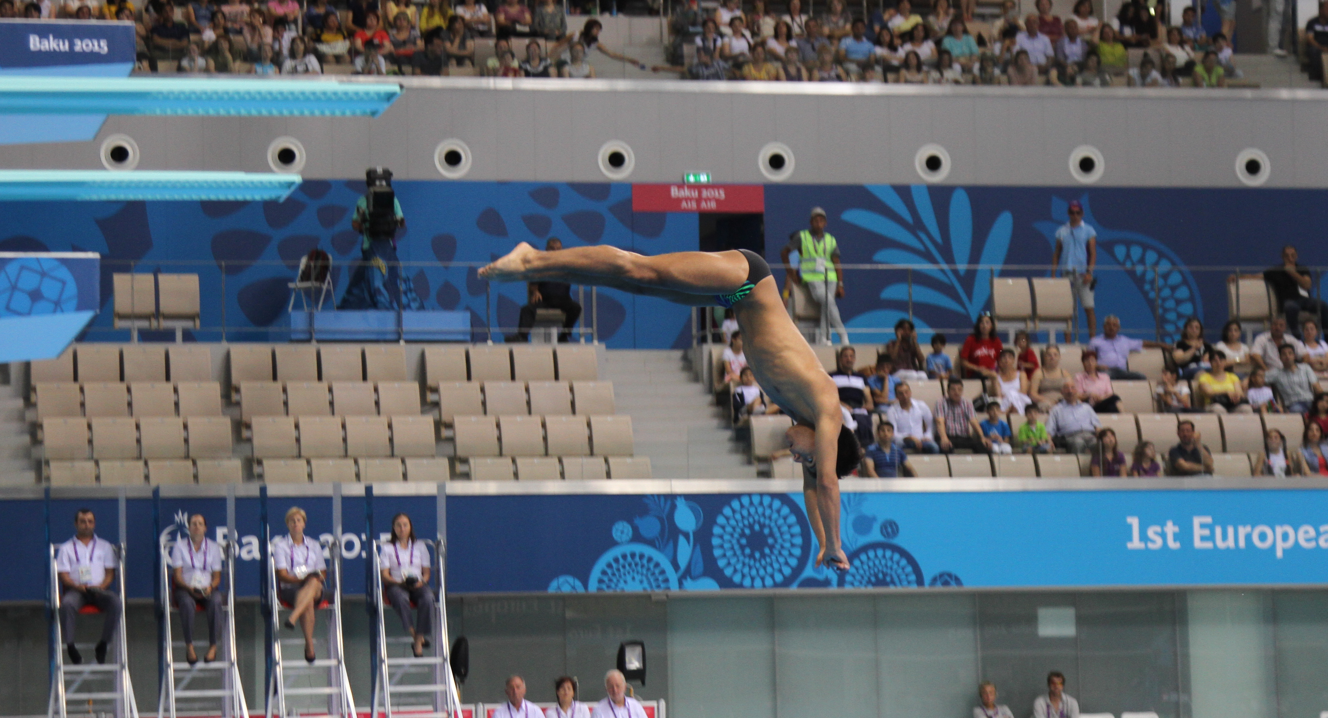 Martin Christensen at the European Games in Baku 2015 from the 3m diving events